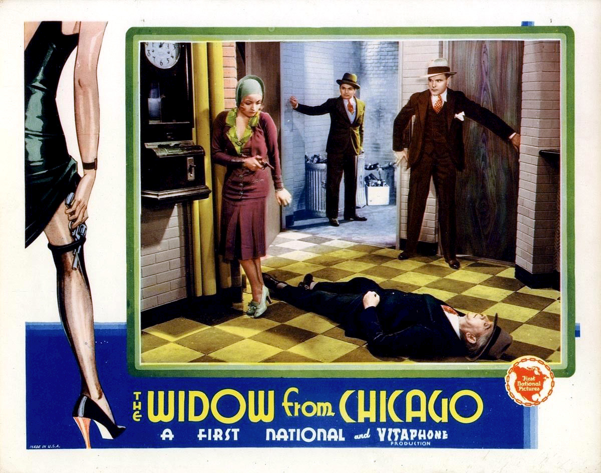 Lobby card for the American crime drama film The Widow From Chicago (1930). The item has no copyright markings on it as can be seen in the links above. At bottom left is Made in USA.